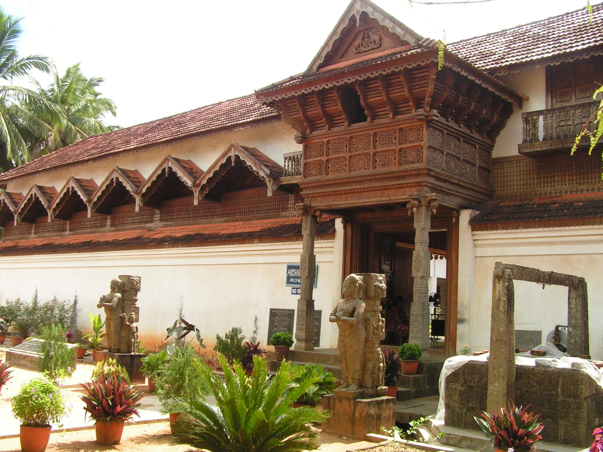 Padmanathapuram Palace is located near Kanyakumari, Tamilnadu. It was built around 1600.